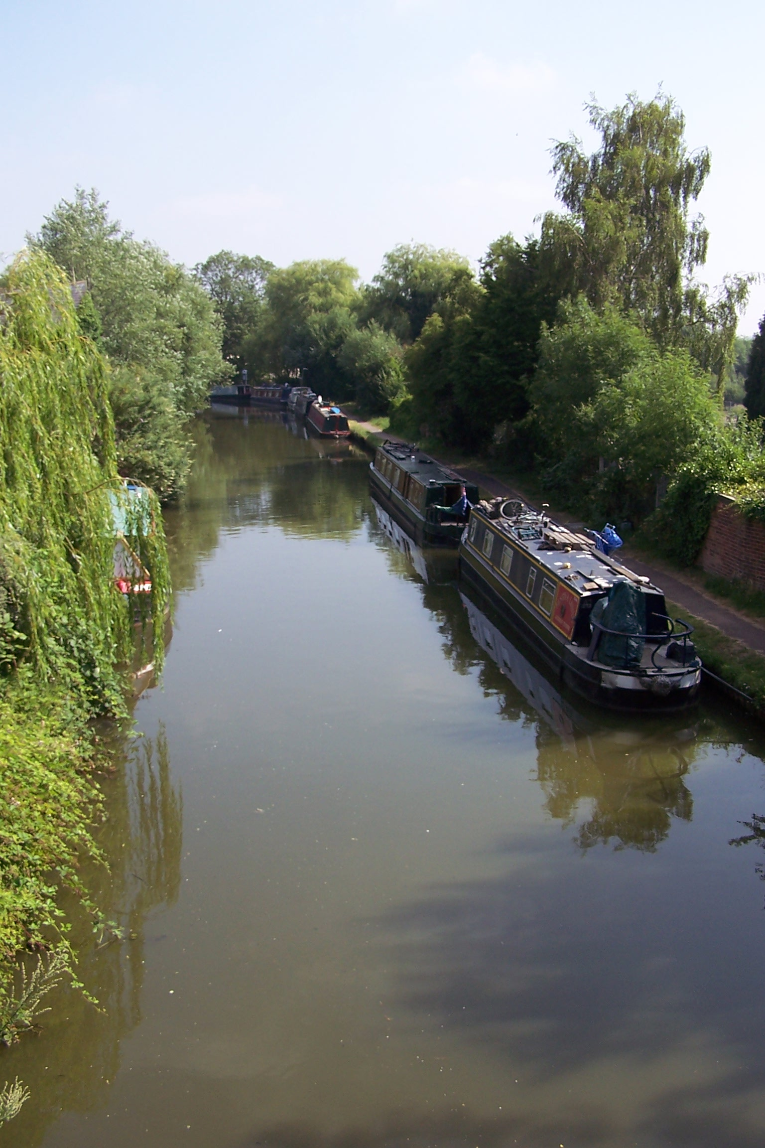 Grand Union Canal at Fenny Stratford in Milton Keynes